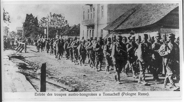 Title: Entrée des troupes austro-hongroises a Tomacheff (Pologne Russe) Abstract/medium: 1 photomechanical prints : photogravures ; 11.3 x 20.3 cm (mount)